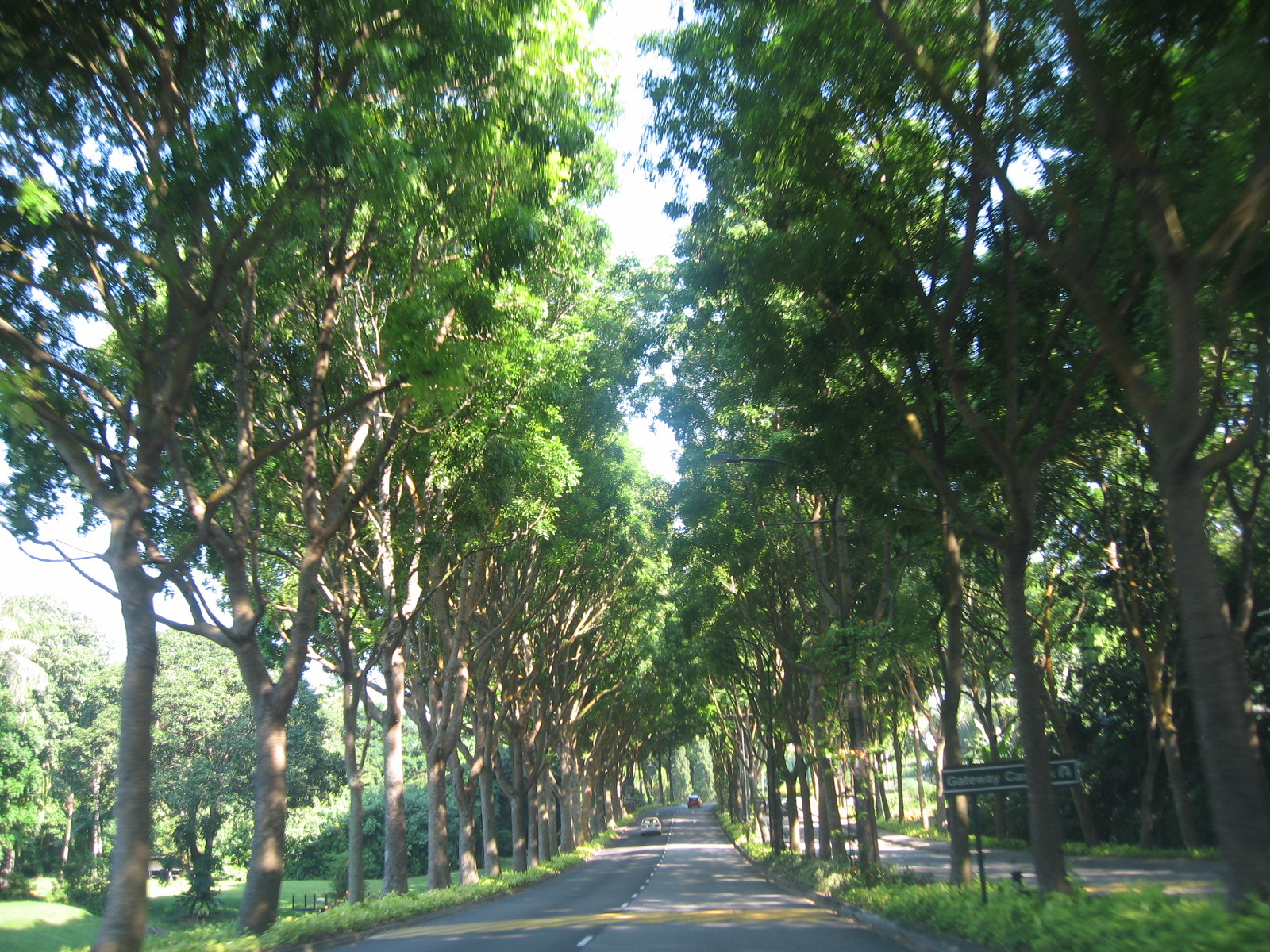 Gateway Avenue, with a 'landscape avenue' design element. Taken by Terence Ong in July 2006.